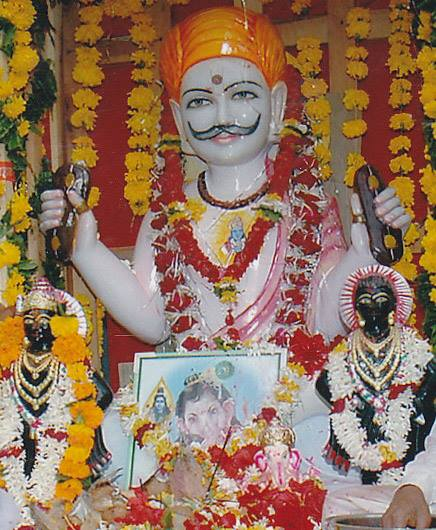 सावता महाराज मूर्ती वडगाव